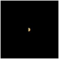 This image is the first view of Mars taken by the Mars Climate Orbiter (MCO) Mars Color Imager (MARCI). It was acquired on 7 September 1999 at about 16:30 UTC (9:30 AM PDT), when the spacecraft was approximately 4.5 million kilometers (2.8 million miles) from the planet. This full-scale medium angle camera view is the highest resolution possible at this distance from Mars. At this point in its orbit around the sun, MCO is moving slower than, and being overtaken by, Mars (the morning side of the planet is visible in this picture). The center longitude is around 240° W. The Mars Climate Orbiter spacecraft will reach Mars on September 23, 1999. The Mars orbit insertion (MOI) will be immediately followed by a period of aerobraking (into November 1999). The orbiter will then function as a relay and communication satellite for data from the Mars Polar Lander through February 2000 before beginning its Mars-year-long mapping mission. When the next MARCI image will be acquired is presently uncertain. The original mission plan calls for operation of the camera on a "non-interference basis" after the completion of aerobraking and during the lander relay phase. Planning for such operations cannot begin until after MOI.